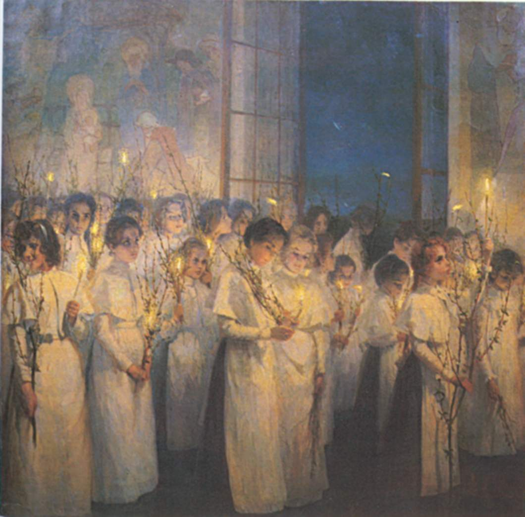 Reproduction of Blonskaya oil «Girls» («Palm Sundey») from Taganrog Art Museum